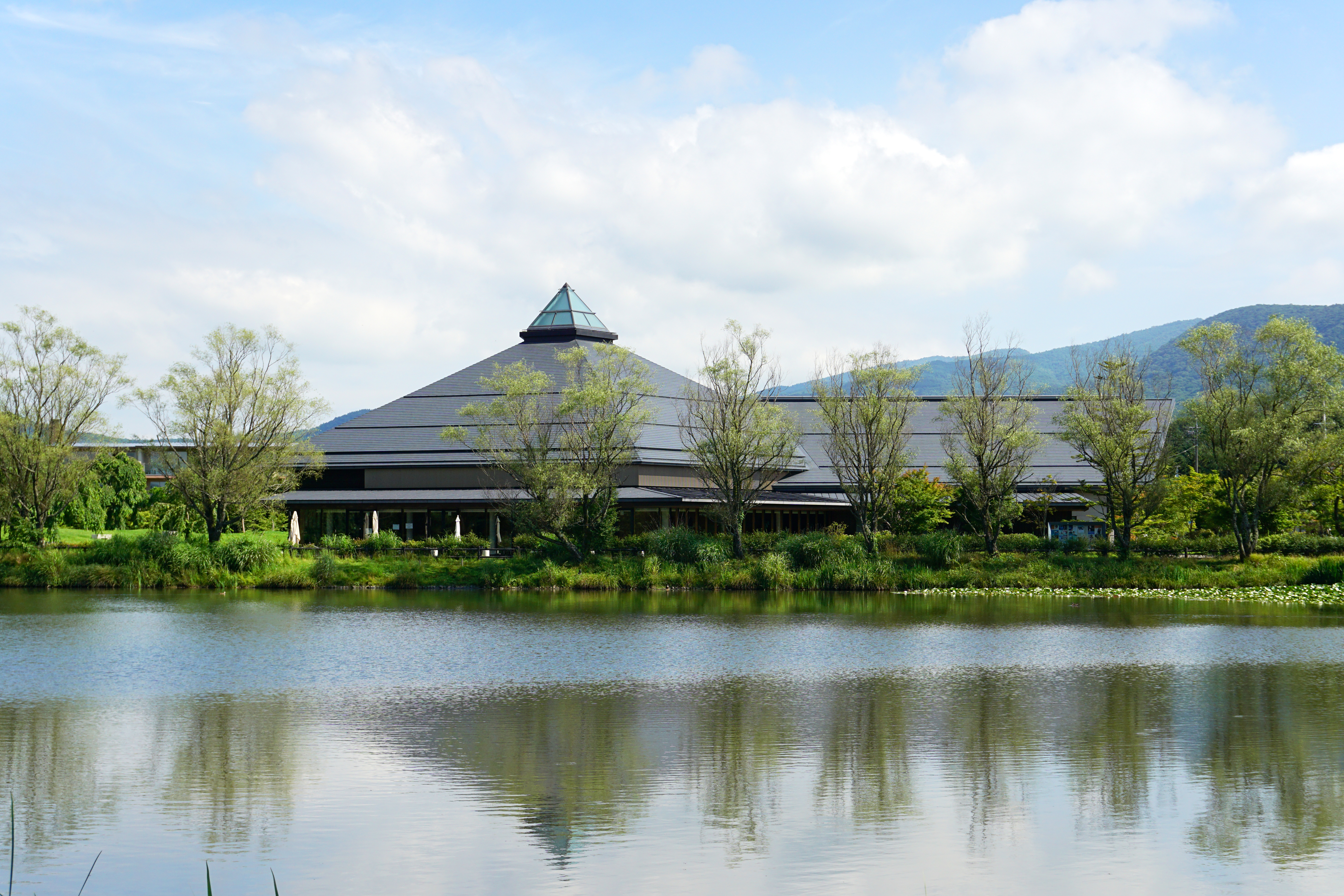 Karuizawa Ohga Hall in Karuizawa, Nagano prefecture, Japan.